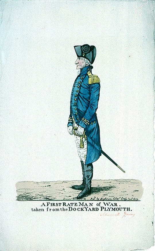 A First Rate Man of War, taken from the Dockyard Plymouth (caricature) An 1809 caricature of Vice-Admiral William Young, who had been commander at Plymouth